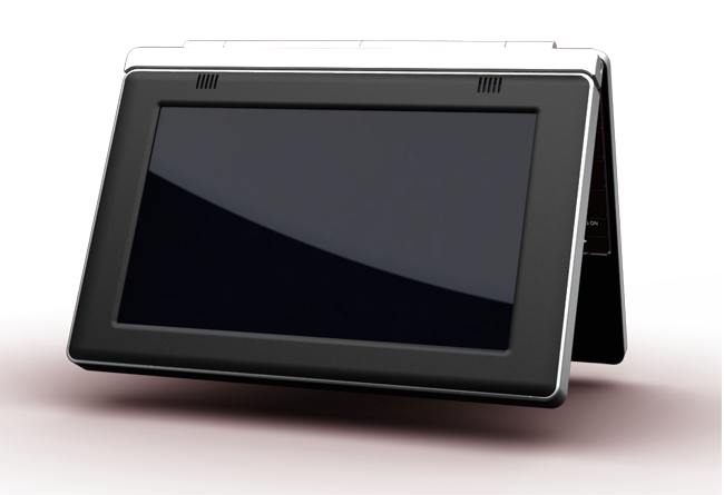 Reversed Touch Book